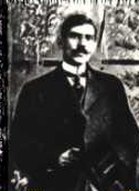 Cayetano Coll y Cuchí serving as President of the Puerto Rican House of Representatives.